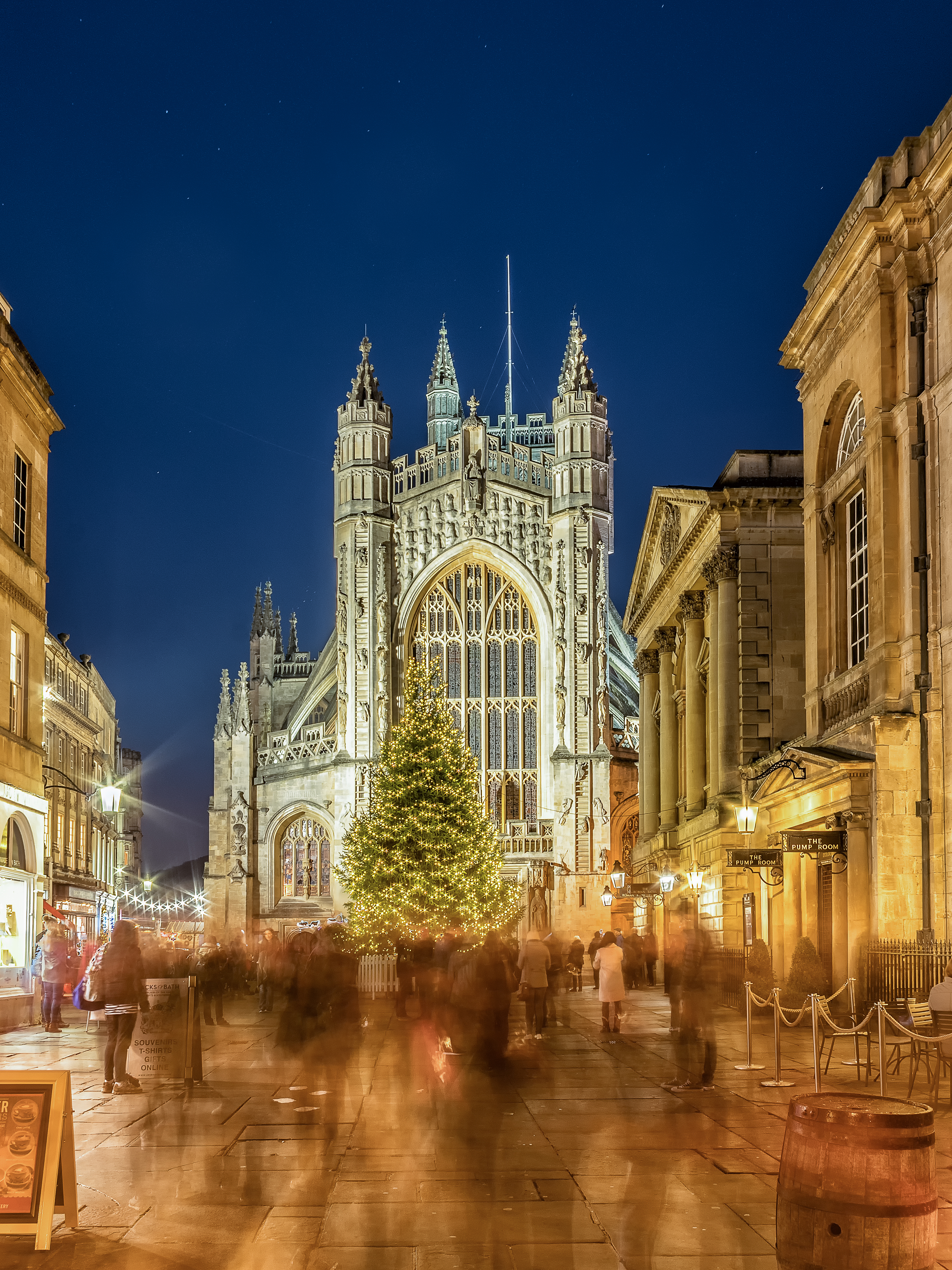 A crisp late november evening in Bath, warmed by the Christmas lights in front of Bath's Abbey.